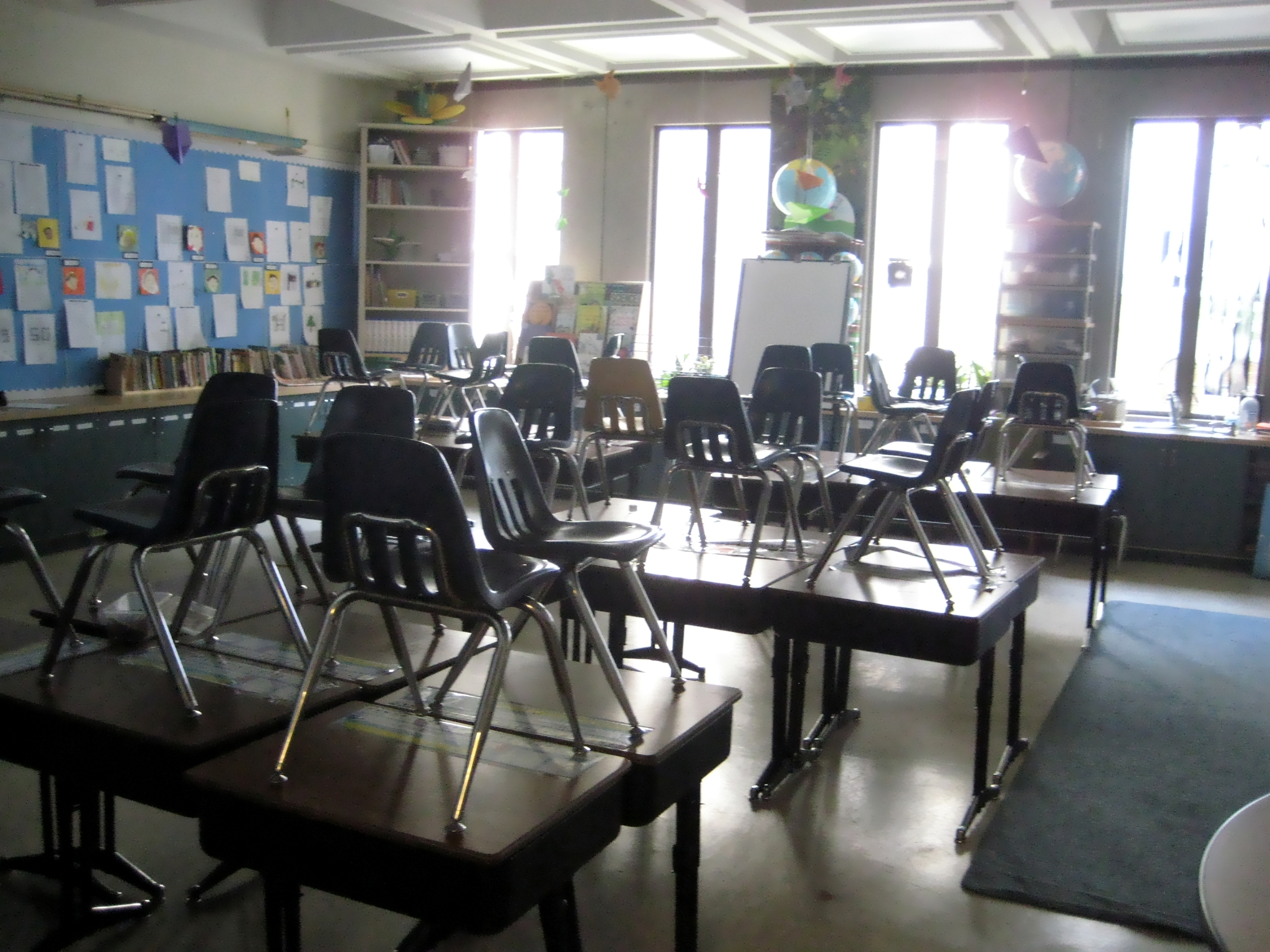 A shot of a classroom in Cathedral School for Boys